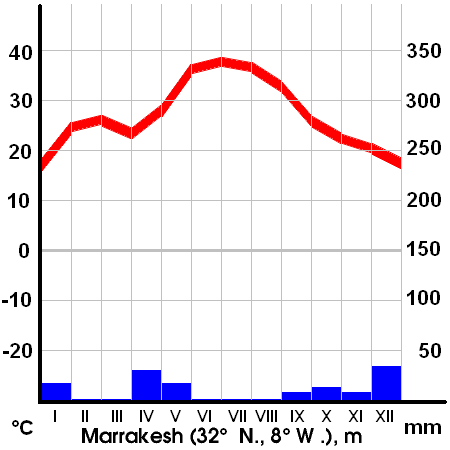 Marrakech monthly average maximum temperature and rainfall. Data script